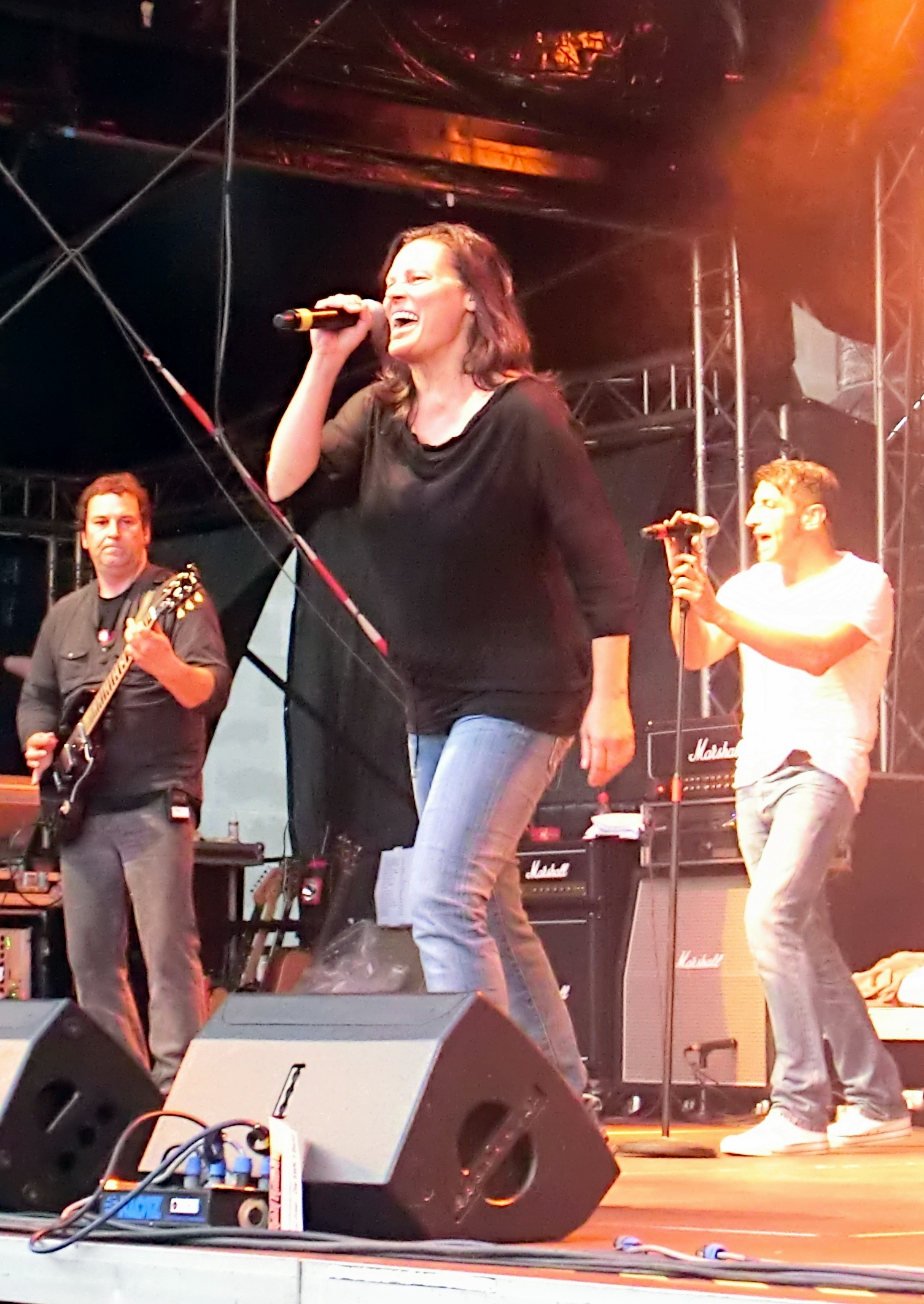 Stefanie Tücking, radio and TV presenter from Germany, performing with the SWR3 band